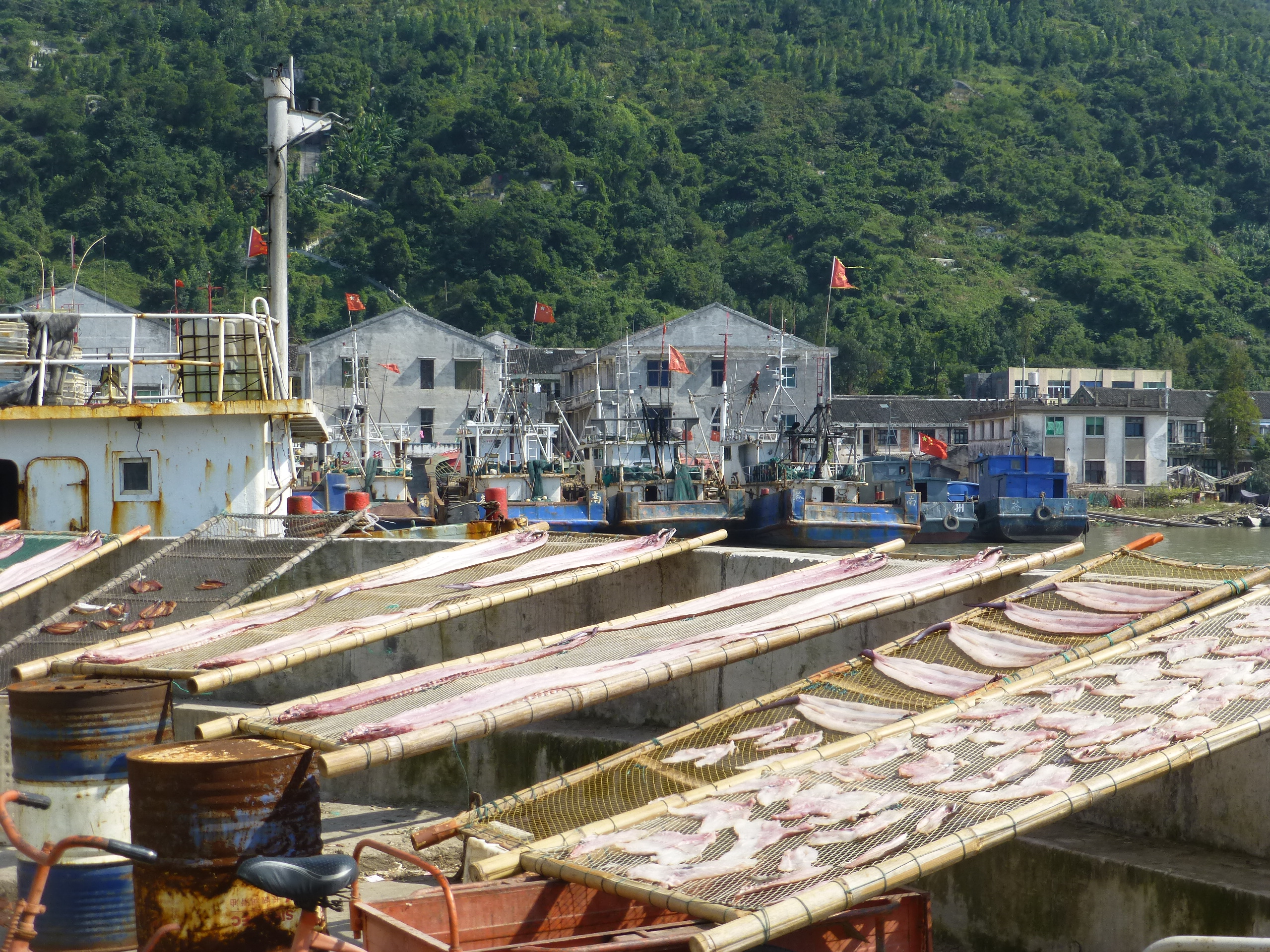 The former Pacao Town (now part of Longgang Town), a fishing harbor in Cangnan County, Zhejiang, China.